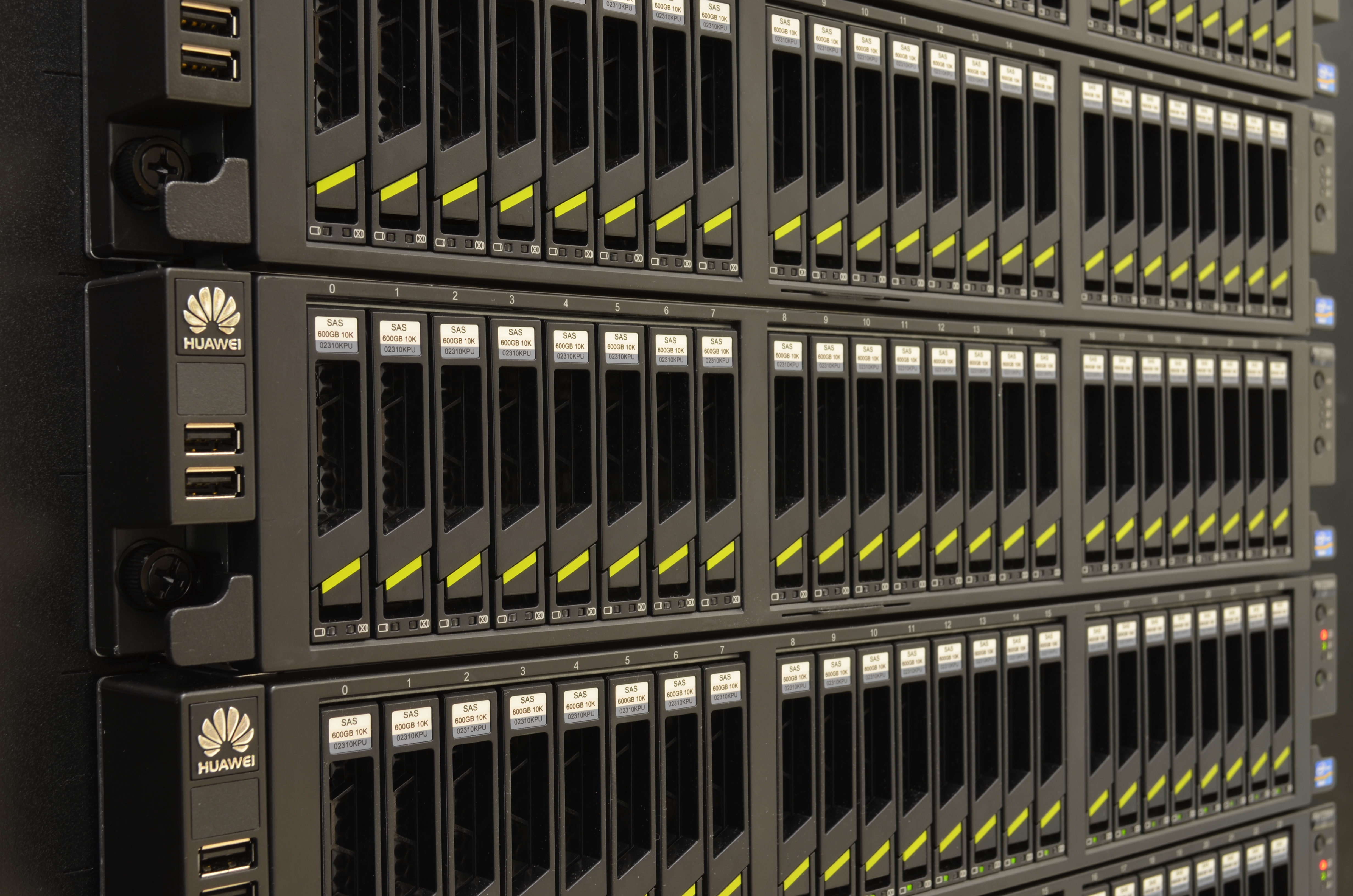 Huawei RH2288H V2 Rack Server.